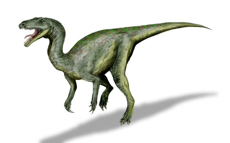 Gojirasaurus quayi, a coelophysoid dinosaur from the Late Triassic of New Mexico. This animal is rather poorly known and the reconstruction here is highly hypothetical. I made it more massive than the other coelophysoid as it was a very large meat eater. Pencil drawing, digital coloring.